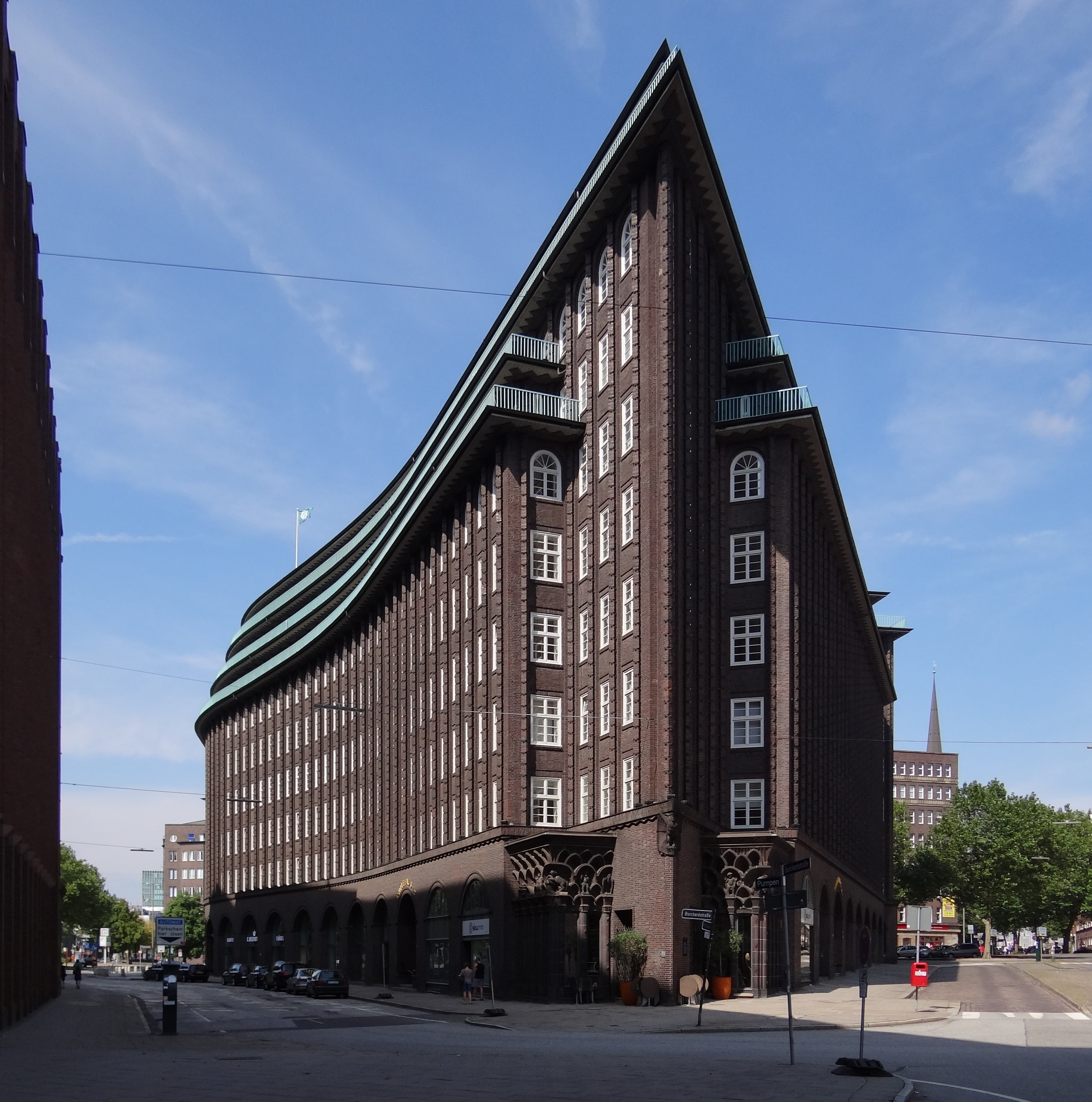 Chilehaus - Hamburg This is a photograph of an architectural monument.